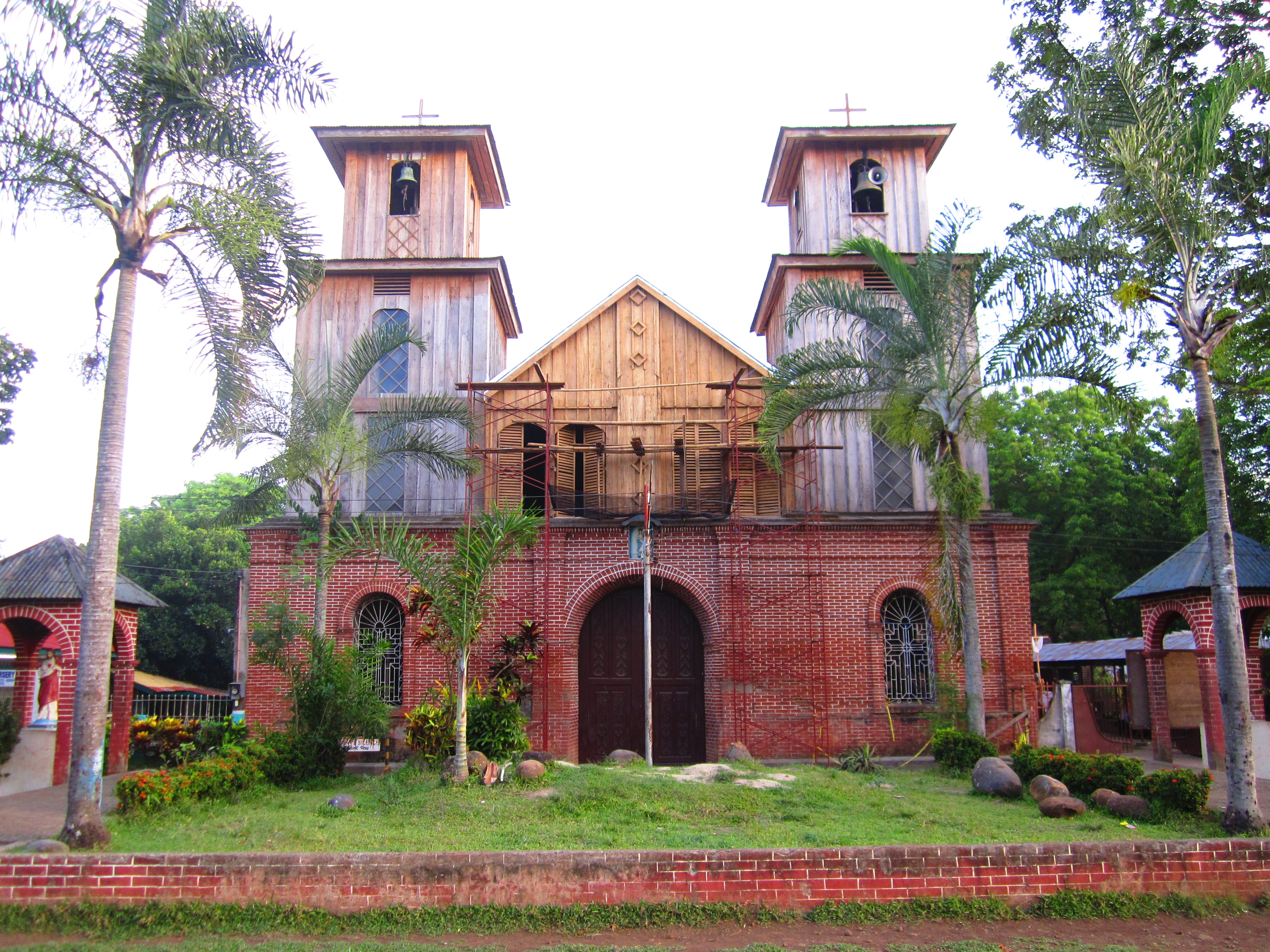 Immaculate Conception Church Features and Details. Built on 1840 by Jesuits, this church is located in Jasaan, Misamis Oriental, Philippines.